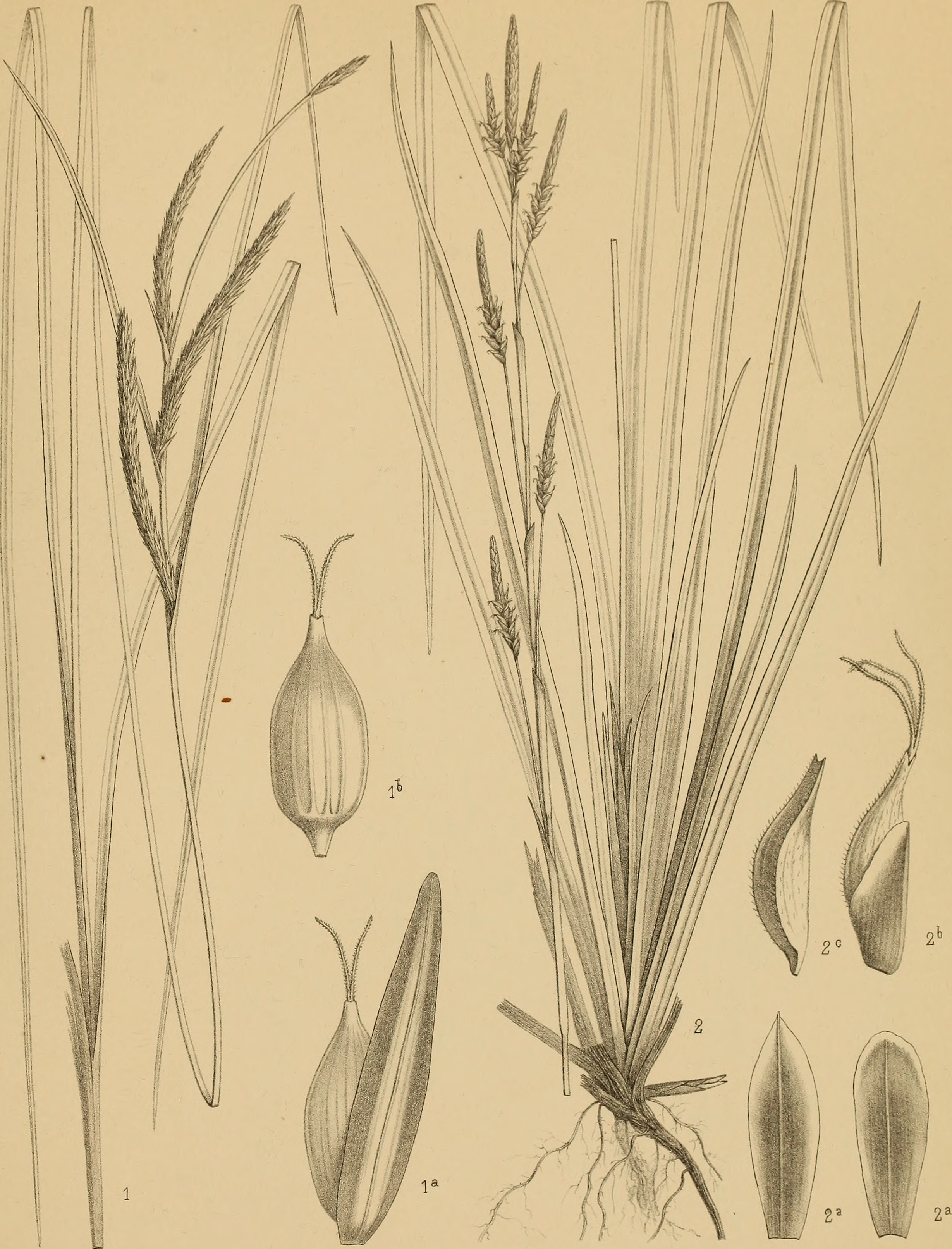 Title: Nouvelles archives du Muséum d'histoire naturelle Year: 1865 (1860s) Authors: Muséum national d'histoire naturelle (France) Subjects: Natural history Publisher: Paris : Masson et Cie Text Appearing Before Image: B.Hérmcq dfil ellith. hnp™ LEMERCIER,Paris 1. C.pnonocarpa /rs/?cA_2 . C. Forficula Franchet Sav. MfiMon e/ (.iclU.,Paris. Nouvelles Arcliives du Muséum 3*- Scrio. Mémoires T.VIII. V\. . Text Appearing After Image: i.Hermcq del et litK . Imp5LEMERClER Paris 1. Cbrachysandra //-5y7c/7_ 2.C.Nambuensis FrancJi A&iAion et CFclif.Thris. Nouvelles Archives du Muséum 3^ Série. Mémou-esï.Vlll.Pl.l(3.